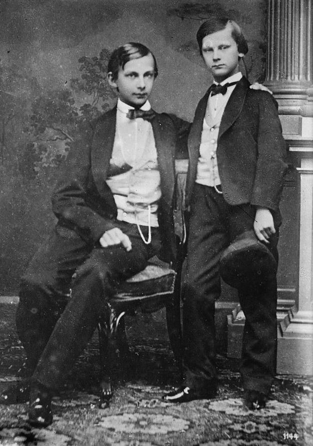 The Bavarian Princes Ludwig II and Otto.